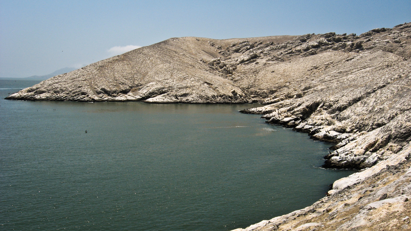 Part of Isla Blanca, located in the bay of Chimbote, Peru. The birds resting on the shore are peruvian pelicans (Pelecanus thagus).